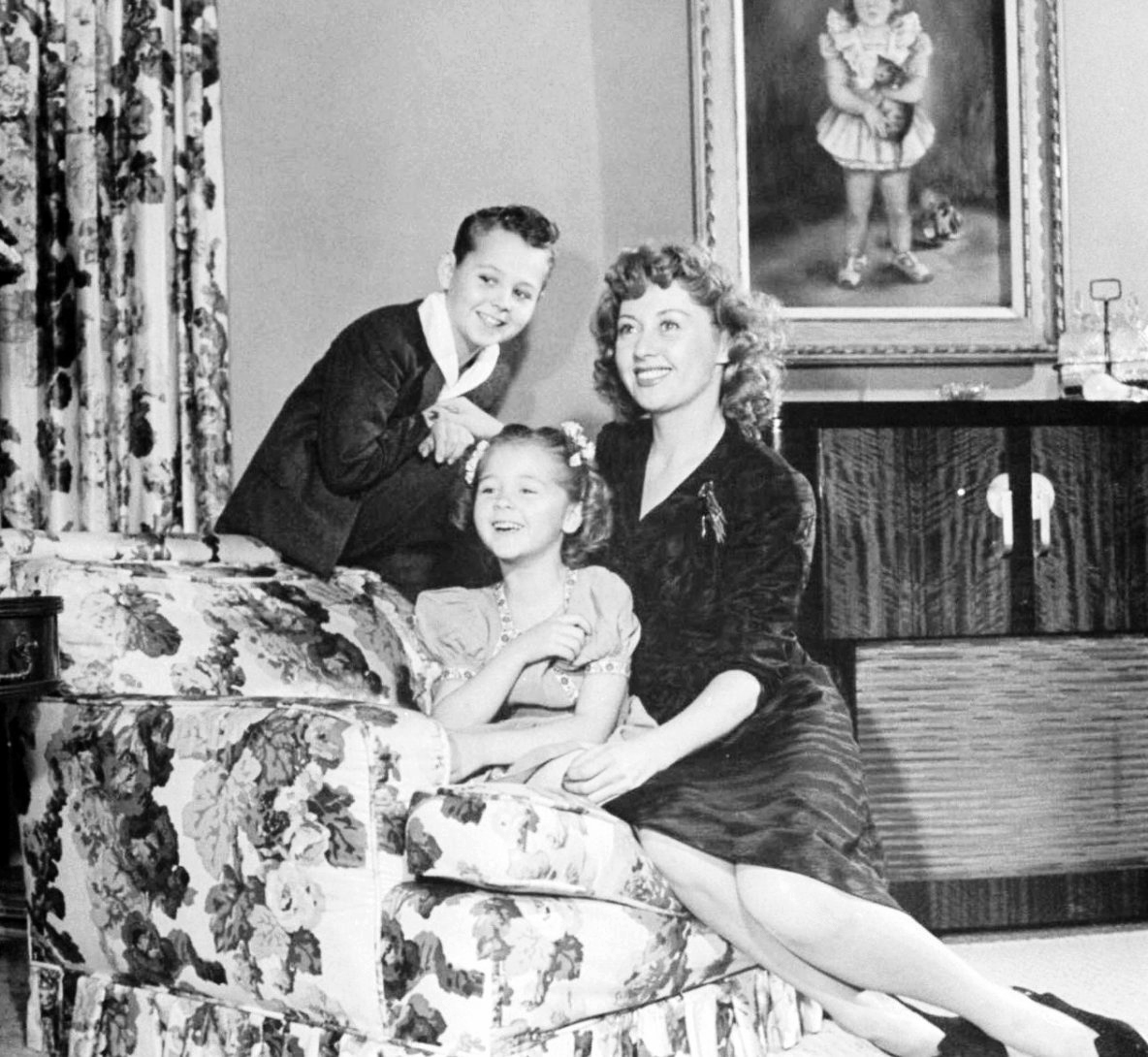 Photograph of Joan Blondell, her daughter Ellen Powell and her son Norman S. Powell